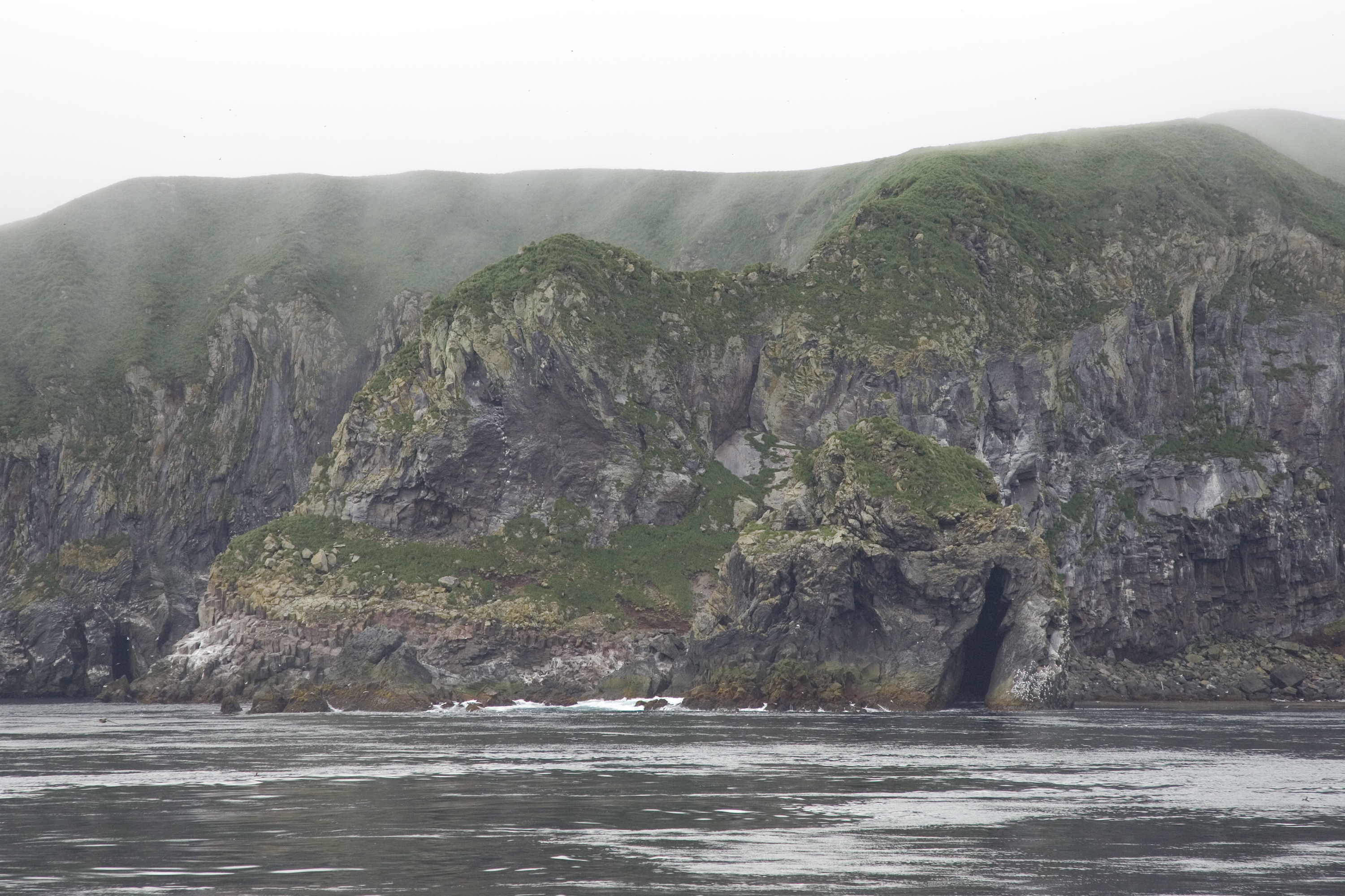 Chagulak Island in the Aleutian Islands, Alaska Maritime National Wildlife Refuge[1]